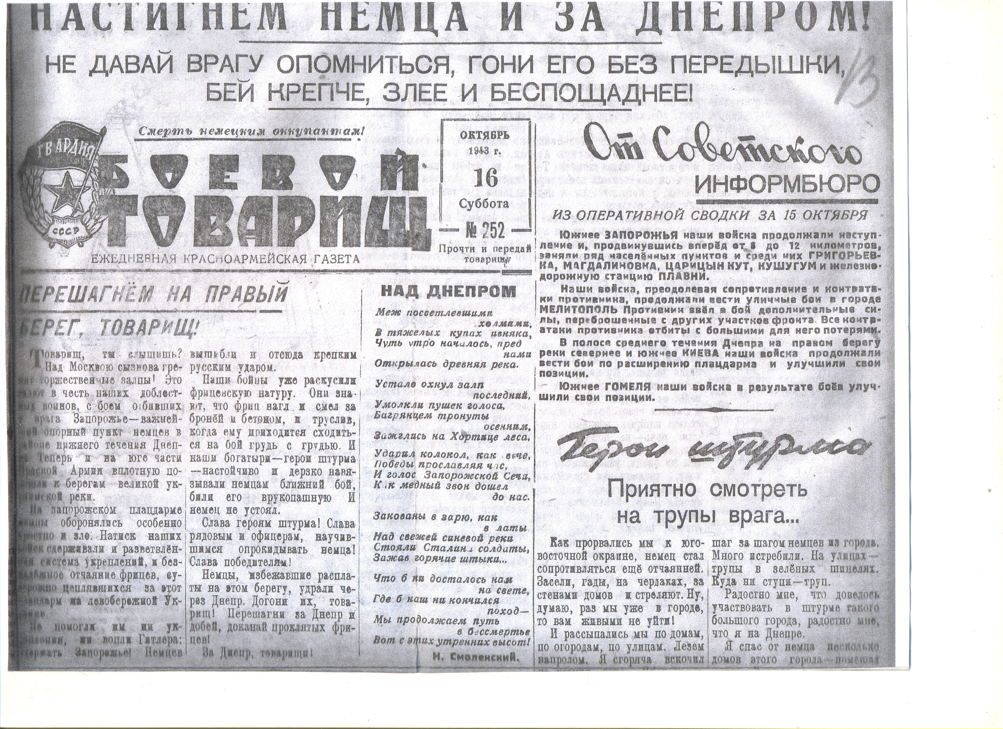 Abikeev Sartbai